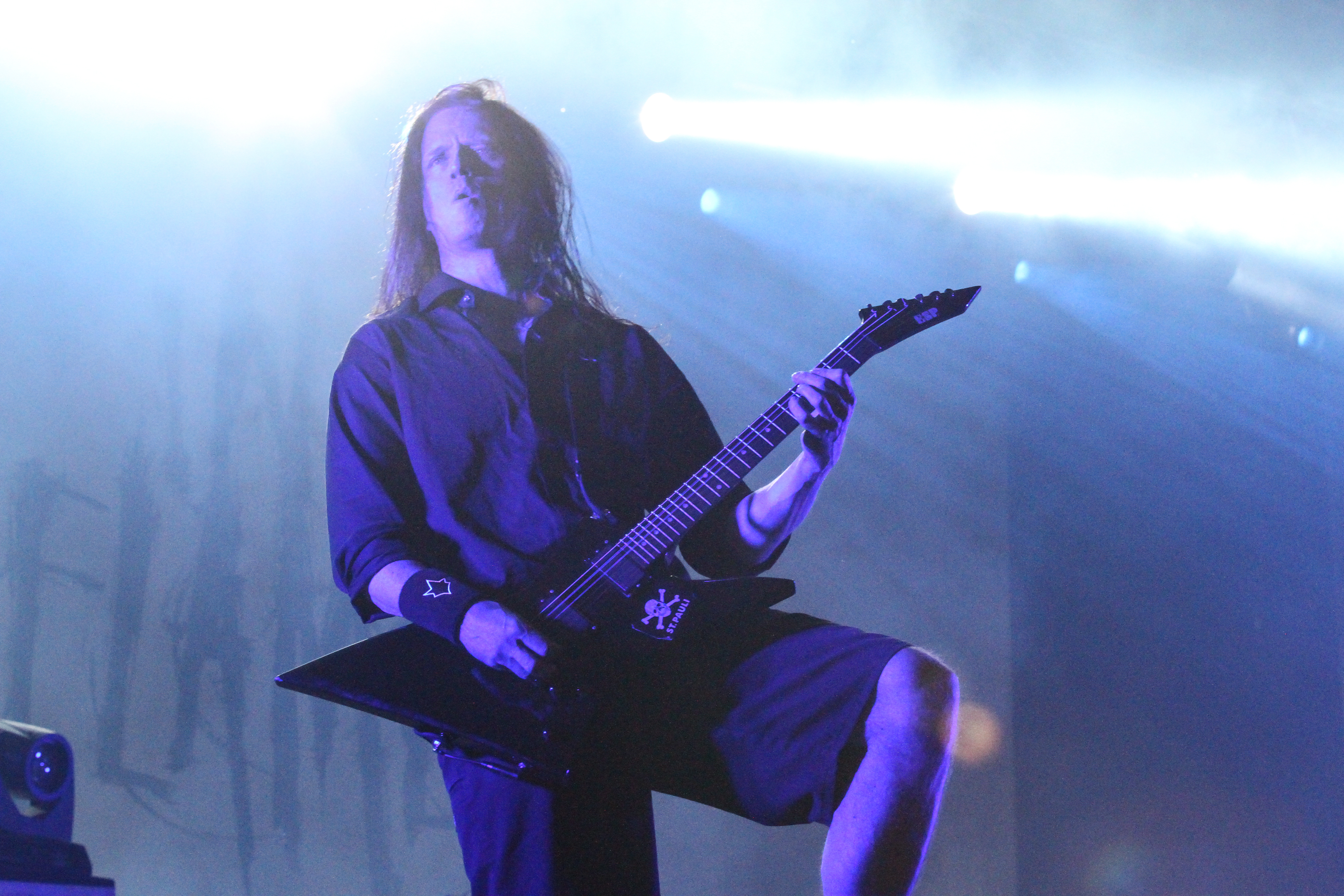 In Flames performing at With Full Force Festival 2013